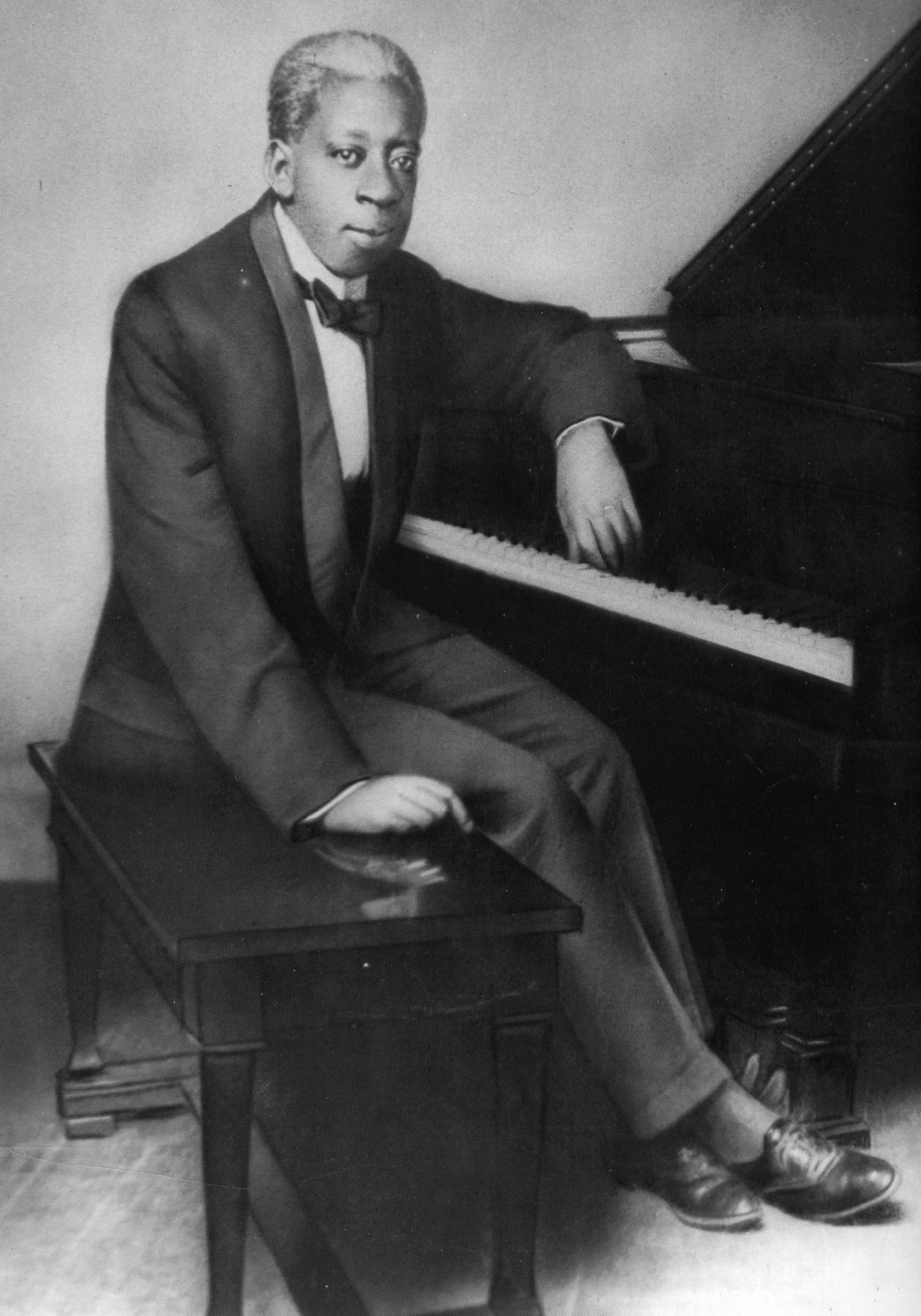 Photograph of pianist & composer Tony Jackson, seated at piano.